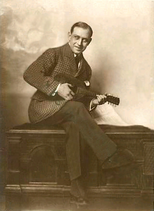 German-British actor, director and producer Friedrich (Frederic) Zelnic, photographed by Nicola Perscheid